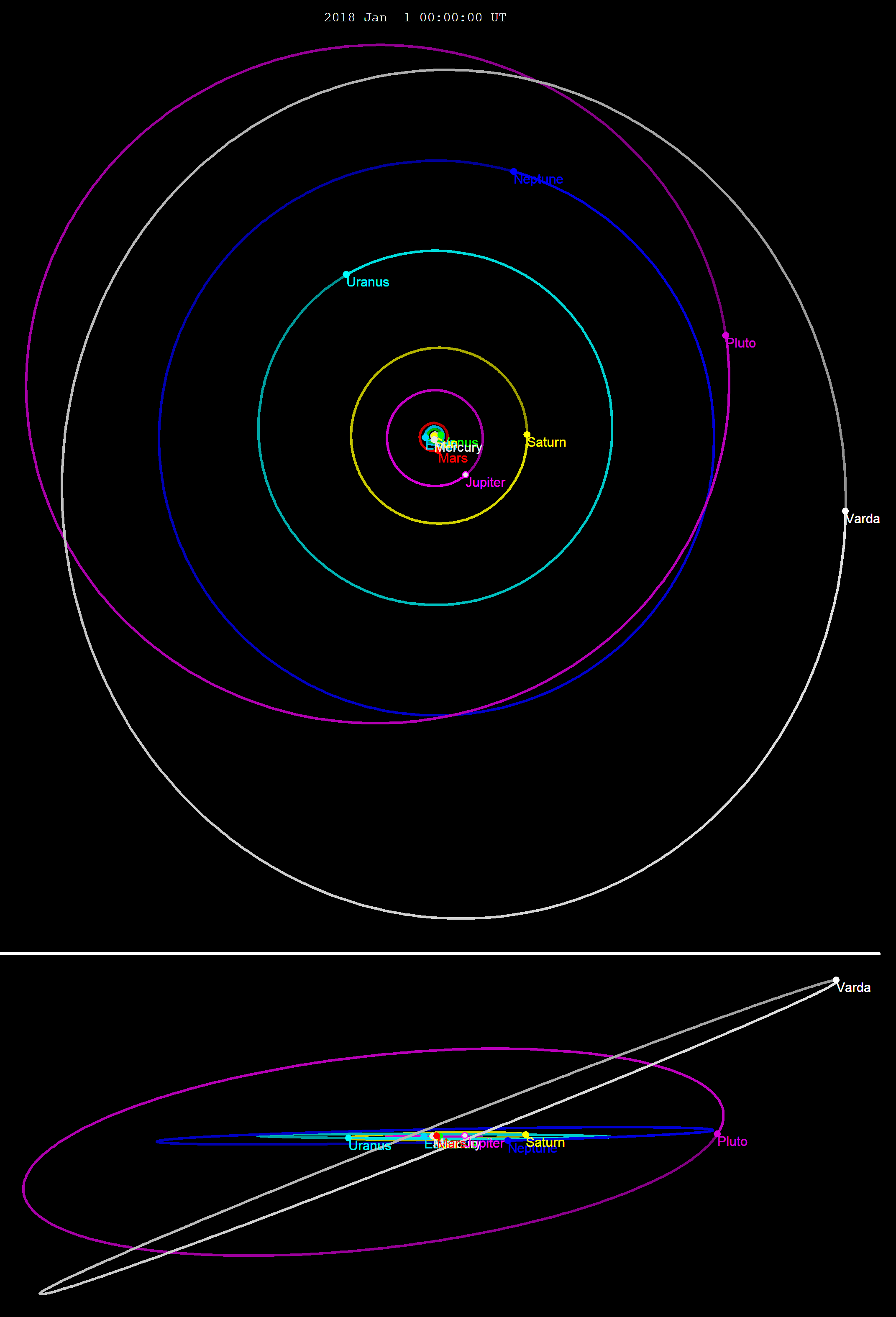 en:174567 Varda orbit, positions for 2018